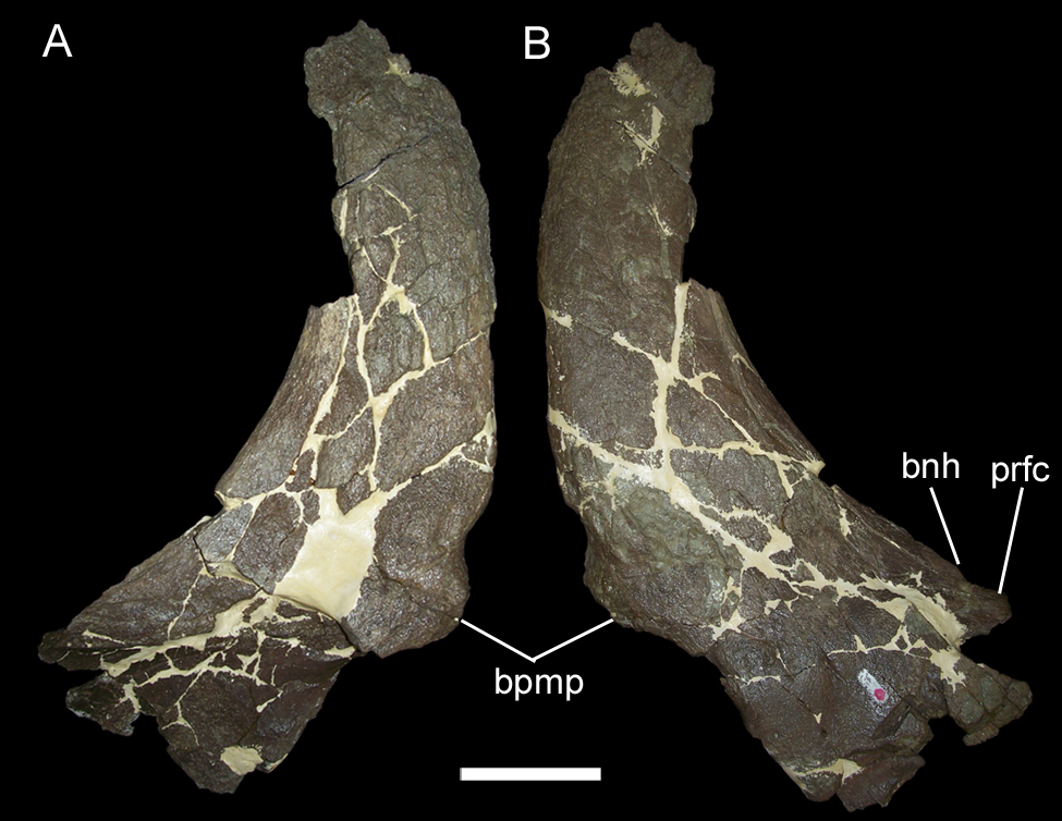 MOR 492, nasals of Rubeosaurus ovatus. Fused left and right nasals in (A) right lateral and (B) left lateral views. Abbreviations: bnh, base of nasal horncore; bpmp, base of premaxillary process; prfc, prefrontal contact. Scale bar equals 10 cm.